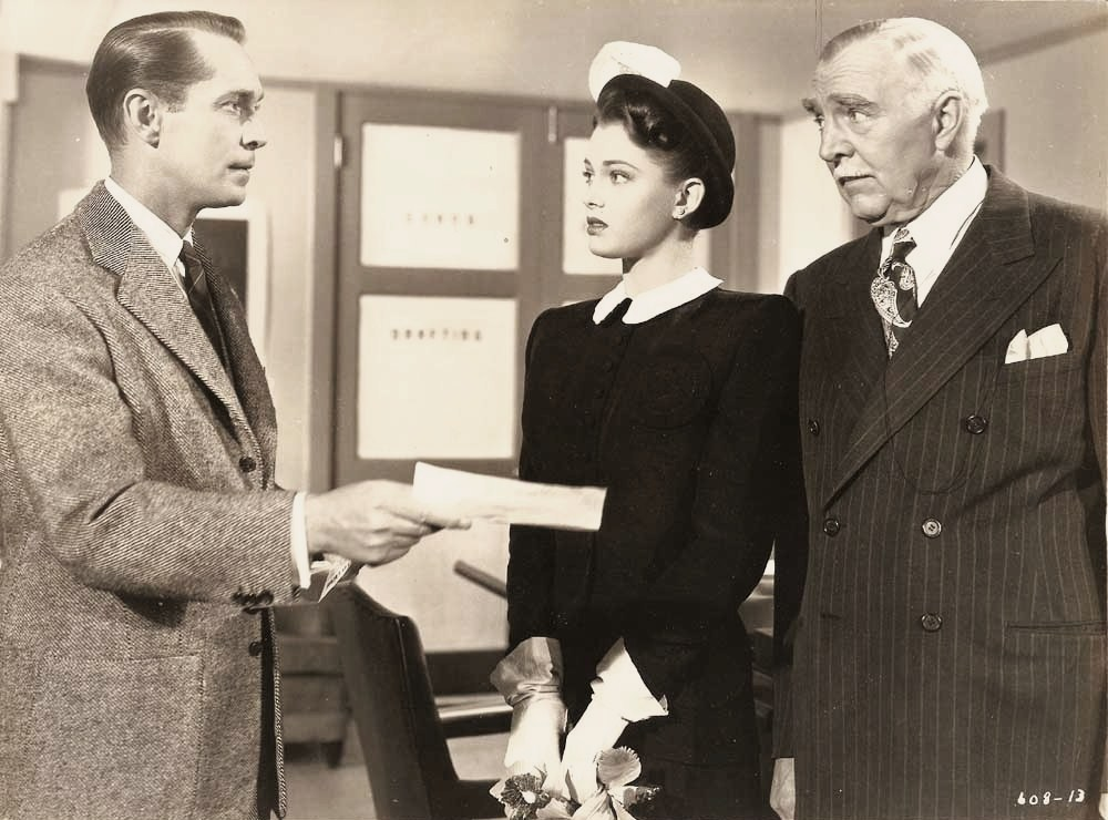 L. to R. : Franchot Tone, Frances Rafferty & Clarence Kolb in Lost Honeymoon - publicity still (cropped)